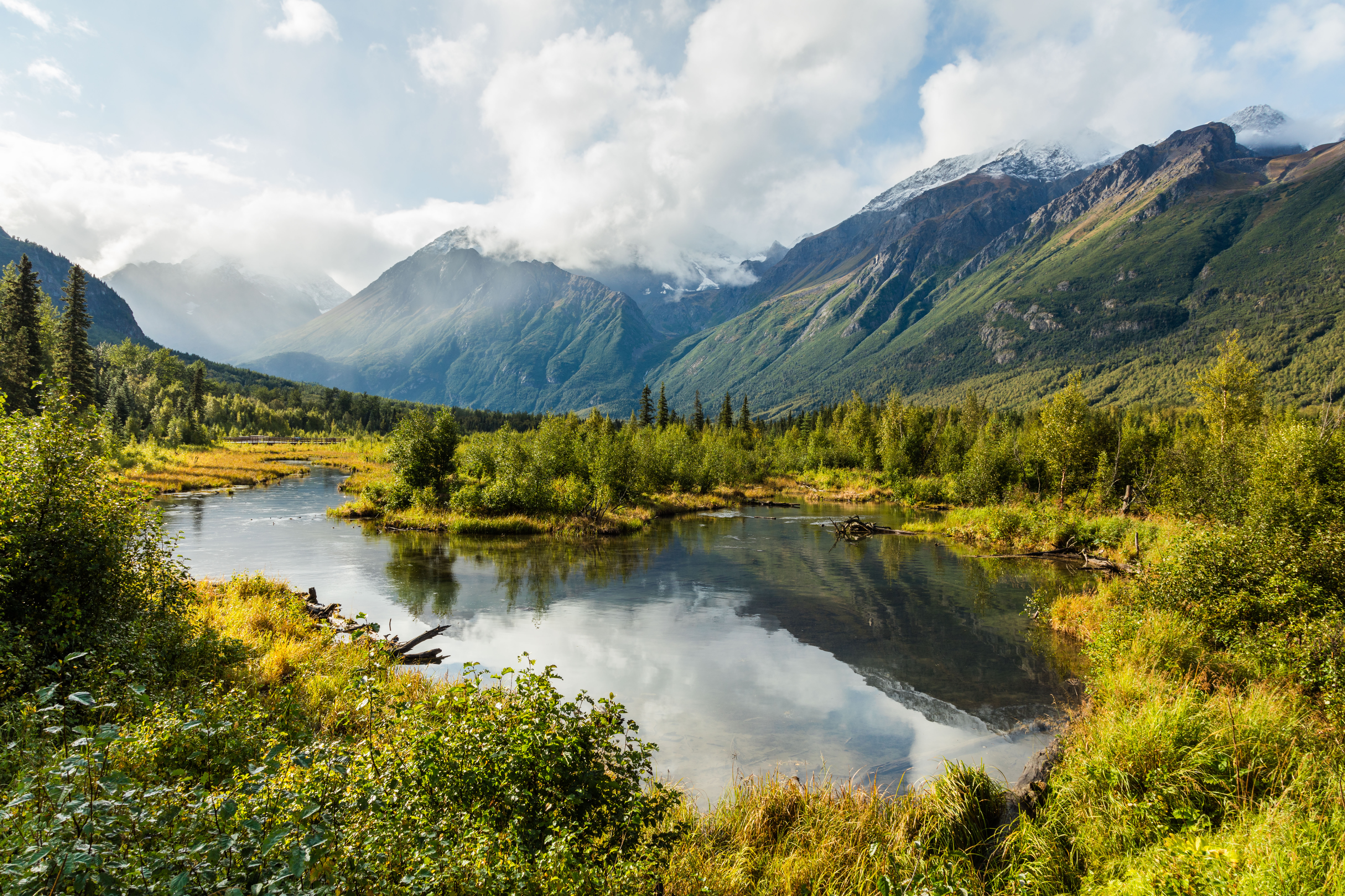 View of a lake in the Eagle River Valley, Municipality of Anchorage, Alaska, United States.